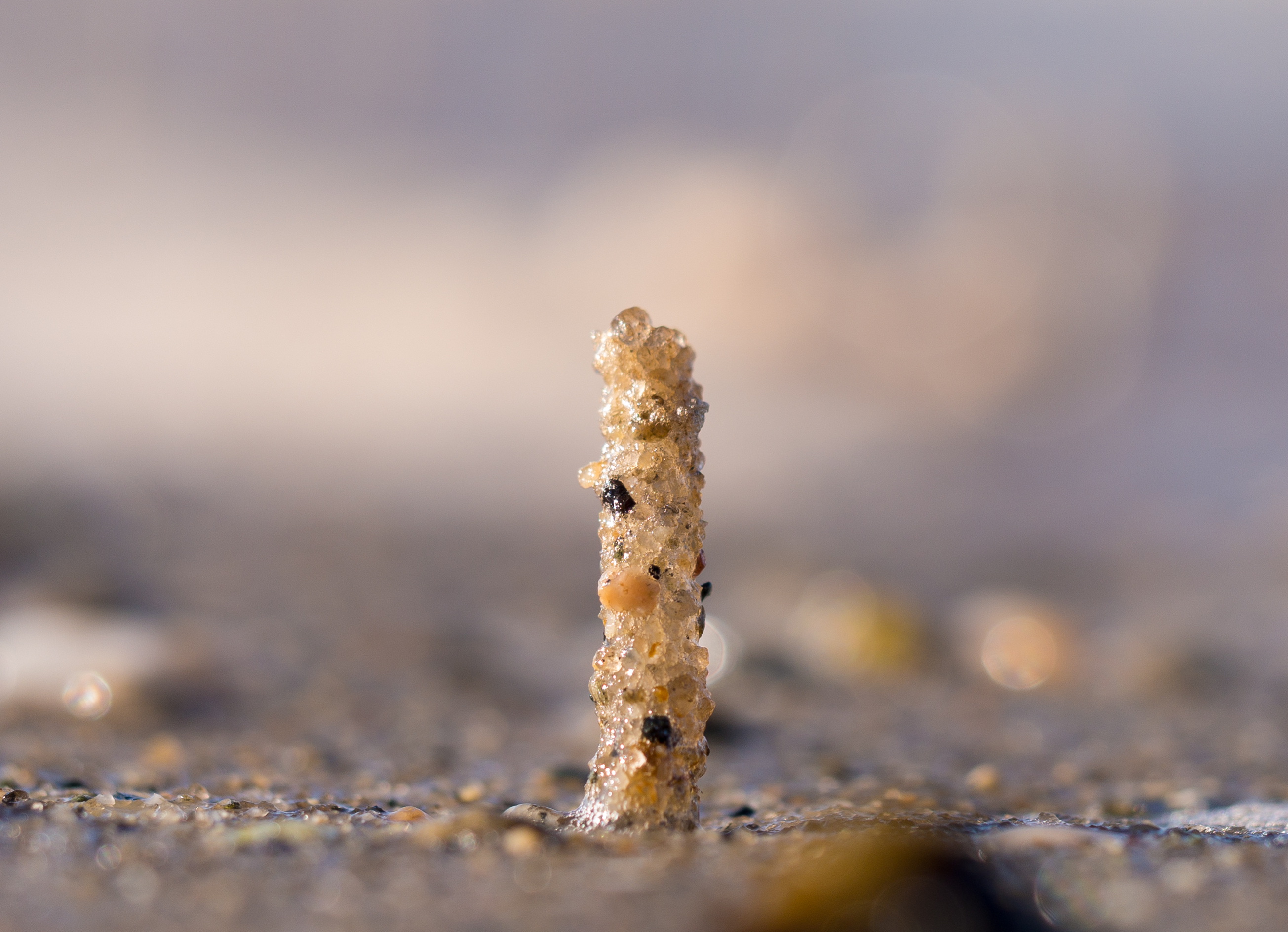 Tube of the sand mason worm (Lanice conchilega). They were littering the edge of the water at Napatree Point Conservation Area in the Watch Hill area of Westerly, Rhode Island.